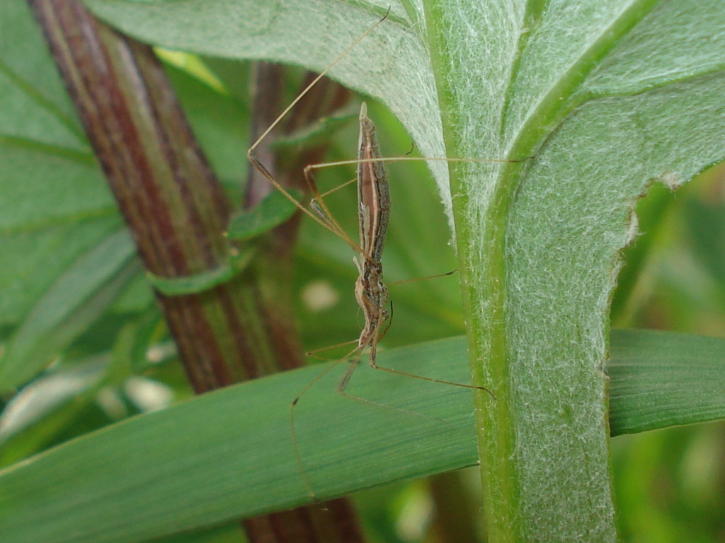 Neides tipularius